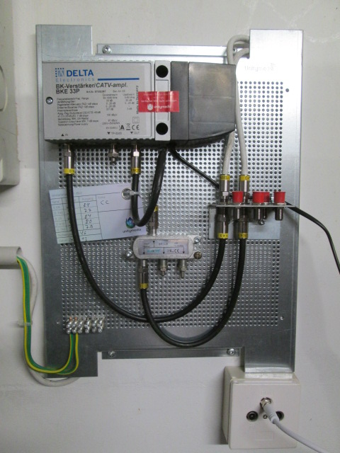 Modern cable-TV house installation, Germany